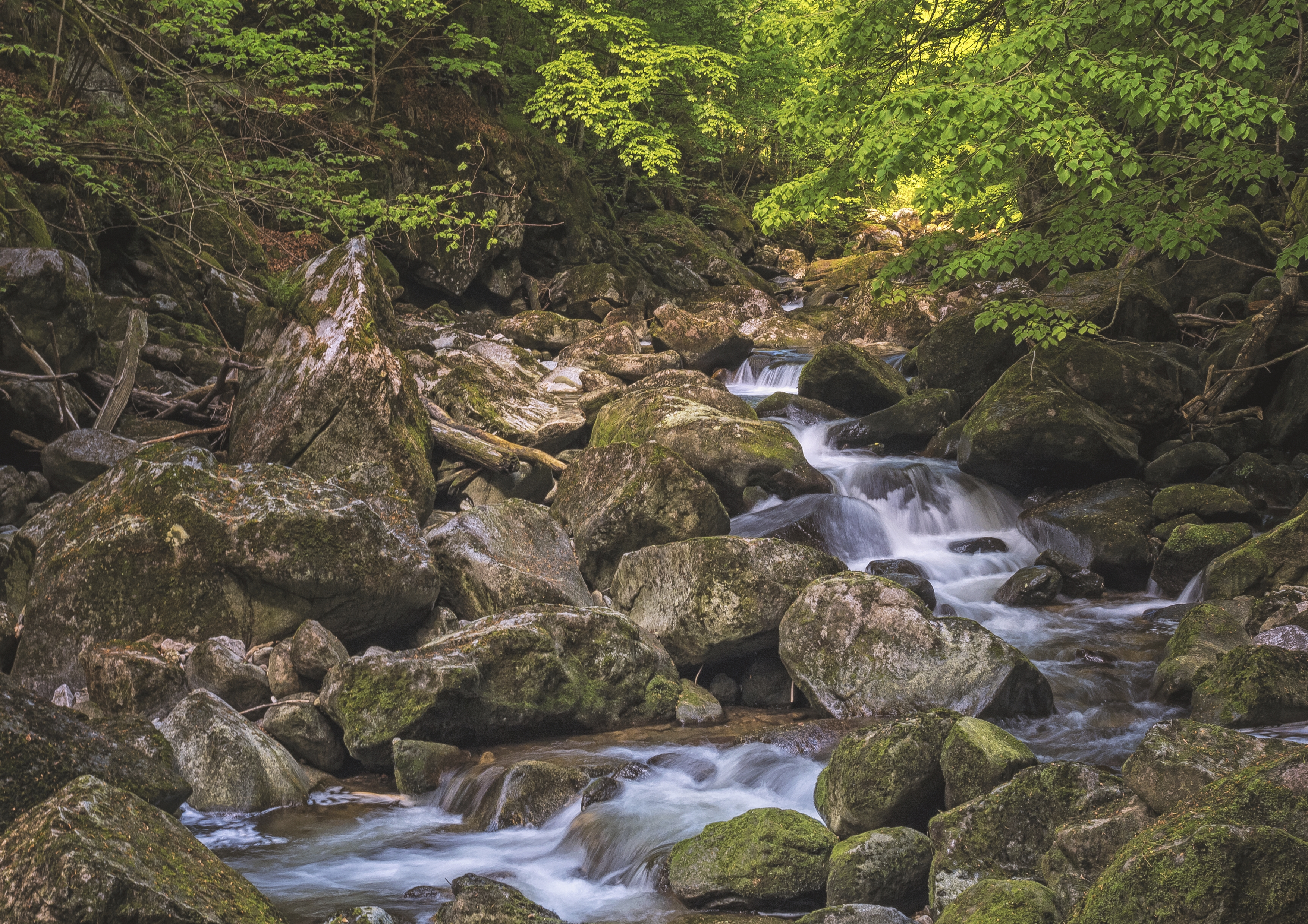 Buchberger Leite, bavarian forest